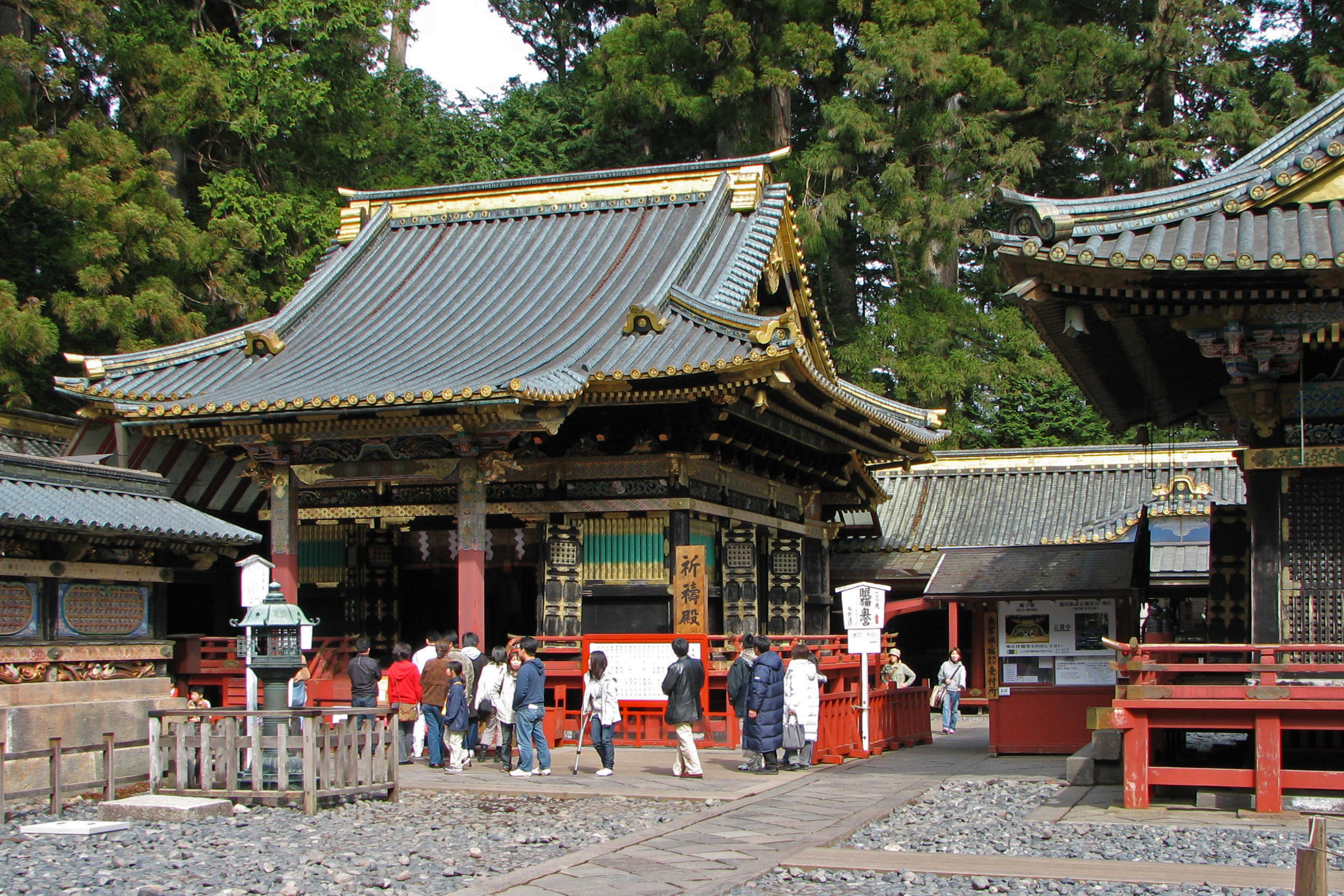 Tosho-gu shrine, Nikko, Japan